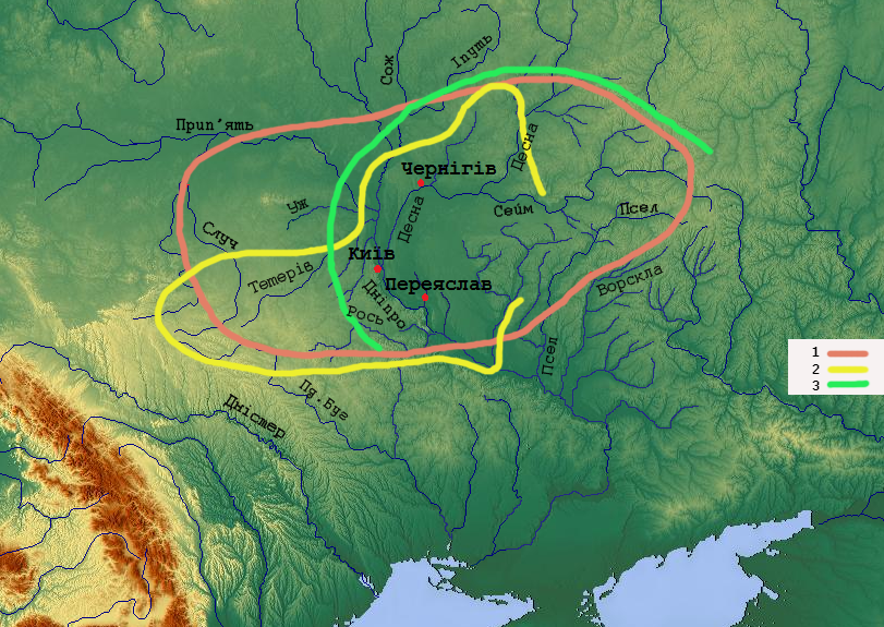 Land of Rus' in the narrow sense of the term. Picture from article by prof. Motsya A. in the journal "Archaeology", 2009, № 1 [1] Legend (on presentation of various scholars) 1 – за П.П.Толочком[2] 2 – за А.М.Насоновим[3] 3 – за Б.О.Рибаковим[4]